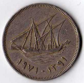 100 Kuwaiti fils - reverse